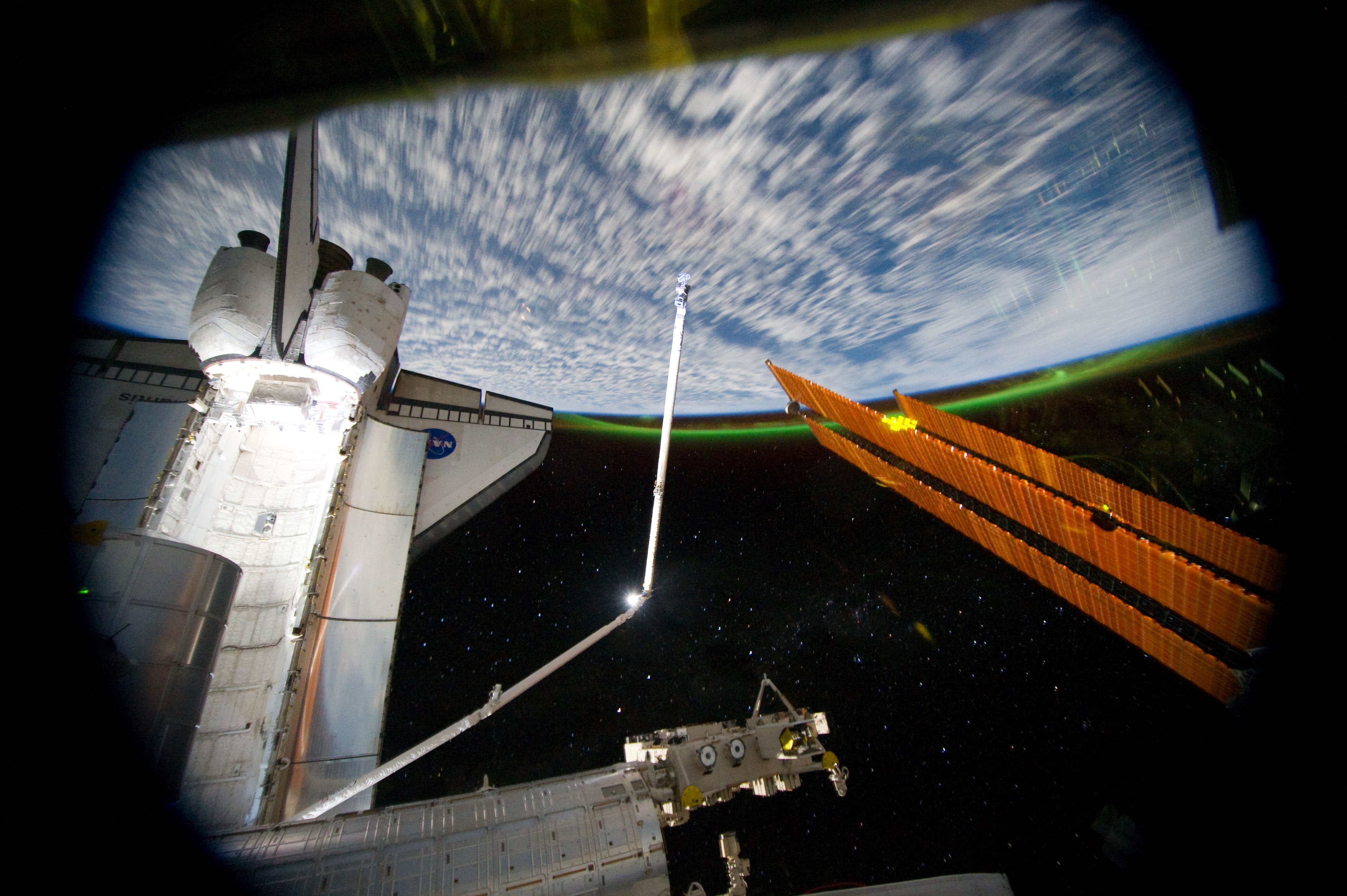 This panoramic view, photographed from the International Space Station, looking past the docked space shuttle Atlantis' cargo bay and part of the station including a solar array panel toward Earth, was taken on July 14 as the joint complex passed over the southern hemisphere. Aurora Australis or the Soutern Lights can be seen on Earth's horizon and a number of stars are visible also.